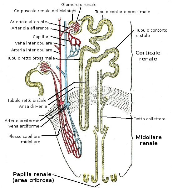 Schematic drawing of the anatomy of the kidney modified from Gray with official anatomical (Latin) terms by Uwe Gille 18:36, 12 August 2005 (UTC)